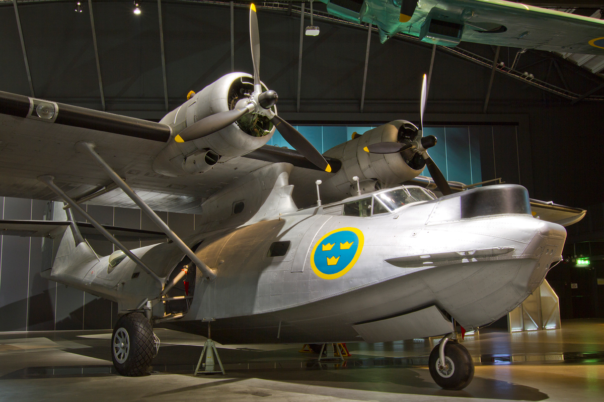 TP47 Catalina Aircraft on display at the Swedish Airforce Museum in Linköping, Sweden